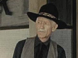 Earl Dwire, from the public domain movie The Lucky Texan (1934).